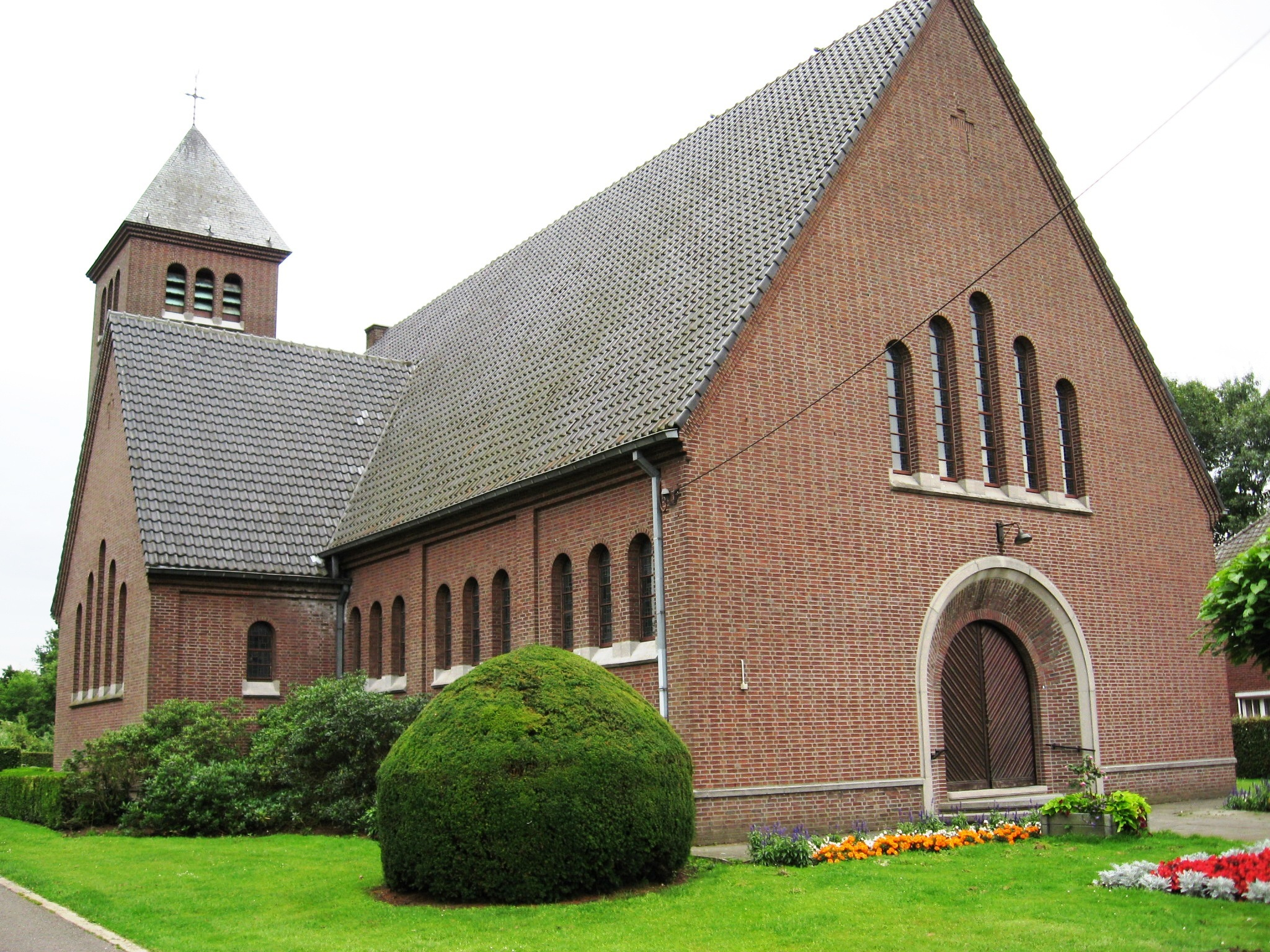 Church of Saint John the Baptist in Lummen (Tiewinkel), Limburg, Belgium